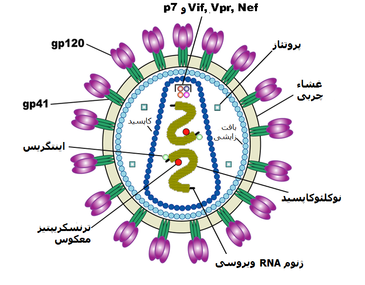 Diagram of the HIV virus.